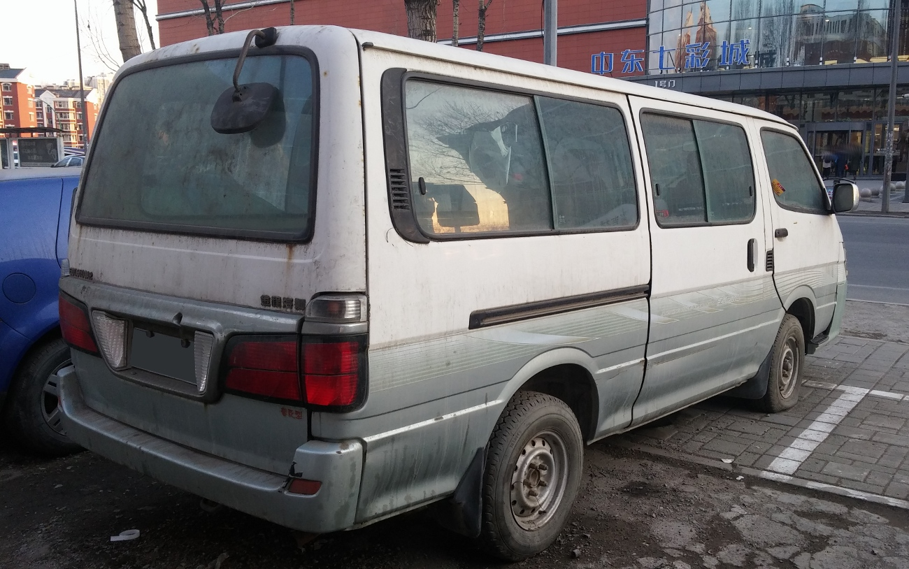 Jincheng GDQ6480A2 photographed in Changchun, Jilin province, China.